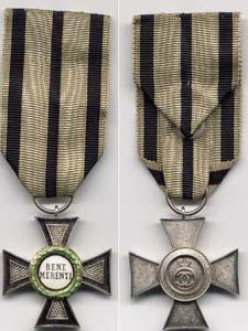 Order of Bene Merenti of Romania, 4th class